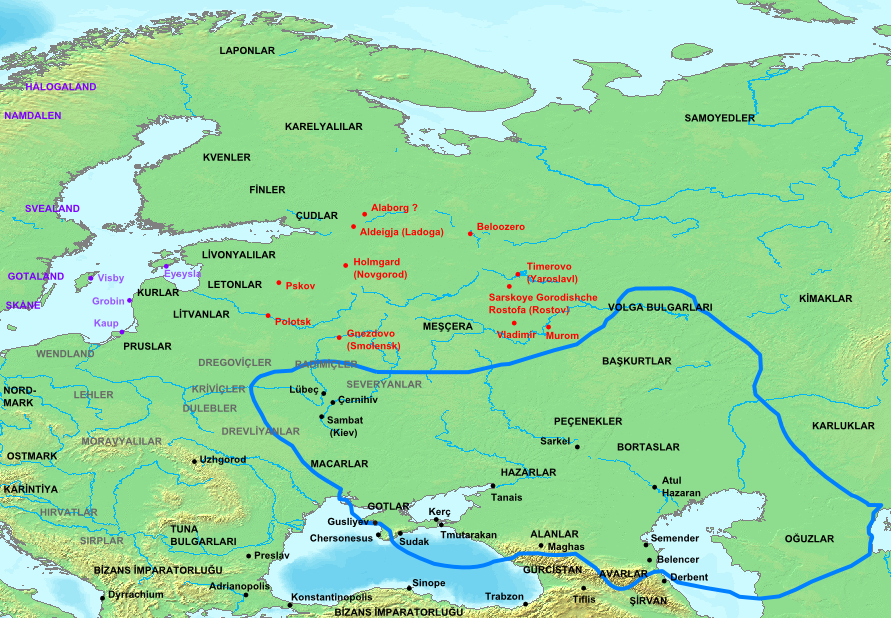 Map showing the distribution of early Varangian settlement, mid-ninth century CE. Varangian settlements shown in red, other Scandinavian settlement in purple. Grey names indicate locations of Slavic tribes. Blue outline indicates extent of Khazar sphere of influence. Names in parenthesis indicate names of more familiar, and later, cities built on approximately the same site as the settlements named. Note:There is controversy over the name of the original settlement at modern-day Rostov. Later Norse sources referred to the town (even in its earliest periods) as Rostofa or Ráðstofa. However, the original settlement (relevant to the period of this map) was at nearby Sarskoye Gorodishche, a later designation meaning simply "Citadel on the Sara River." The original name used by the town's Varangian inhabitants is unknown. For more information, see Rostov and Sarskoye Gorodishche.